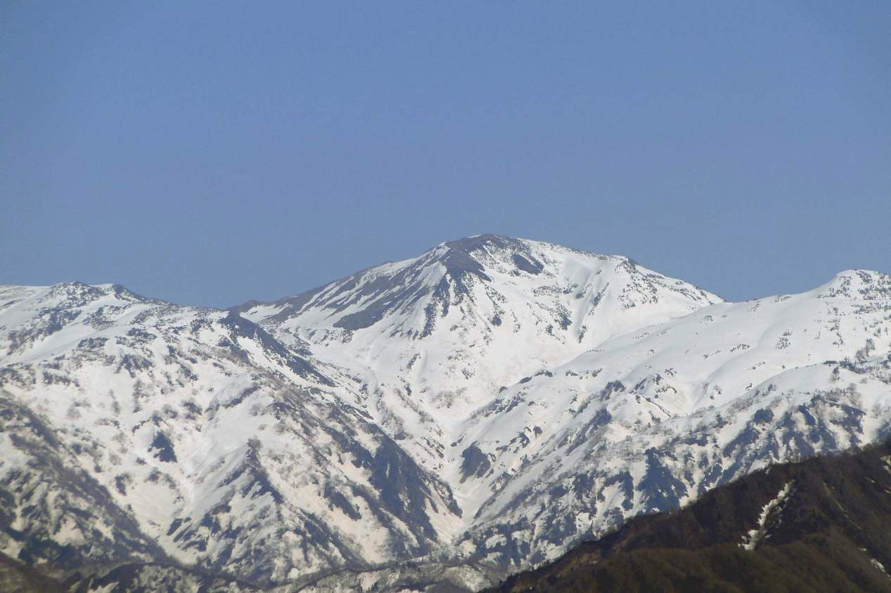 Mount Asahi (Asahi-dake) in the Hida Mountains, as seen from Nyuzen Town, Toyama Prefecture, Japan